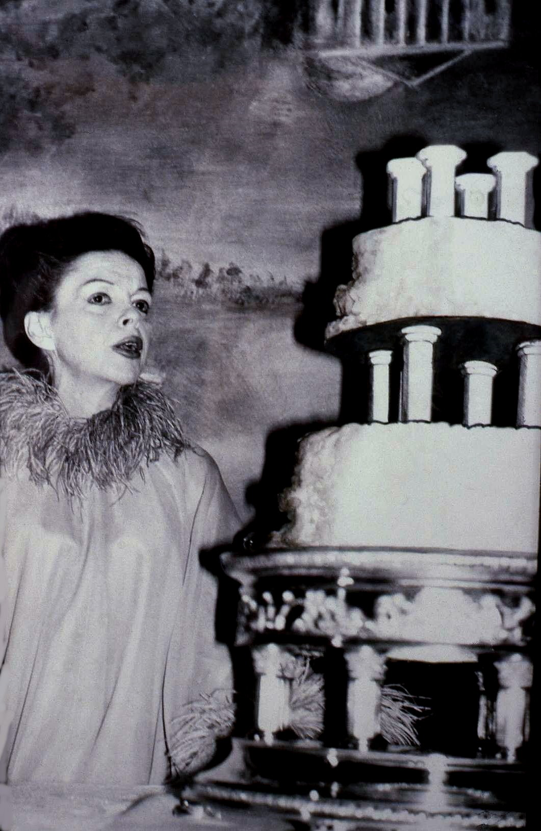 Judy Garland at 'Quaglinos' Jermyn Street London on her wedding day with her wedding cake.